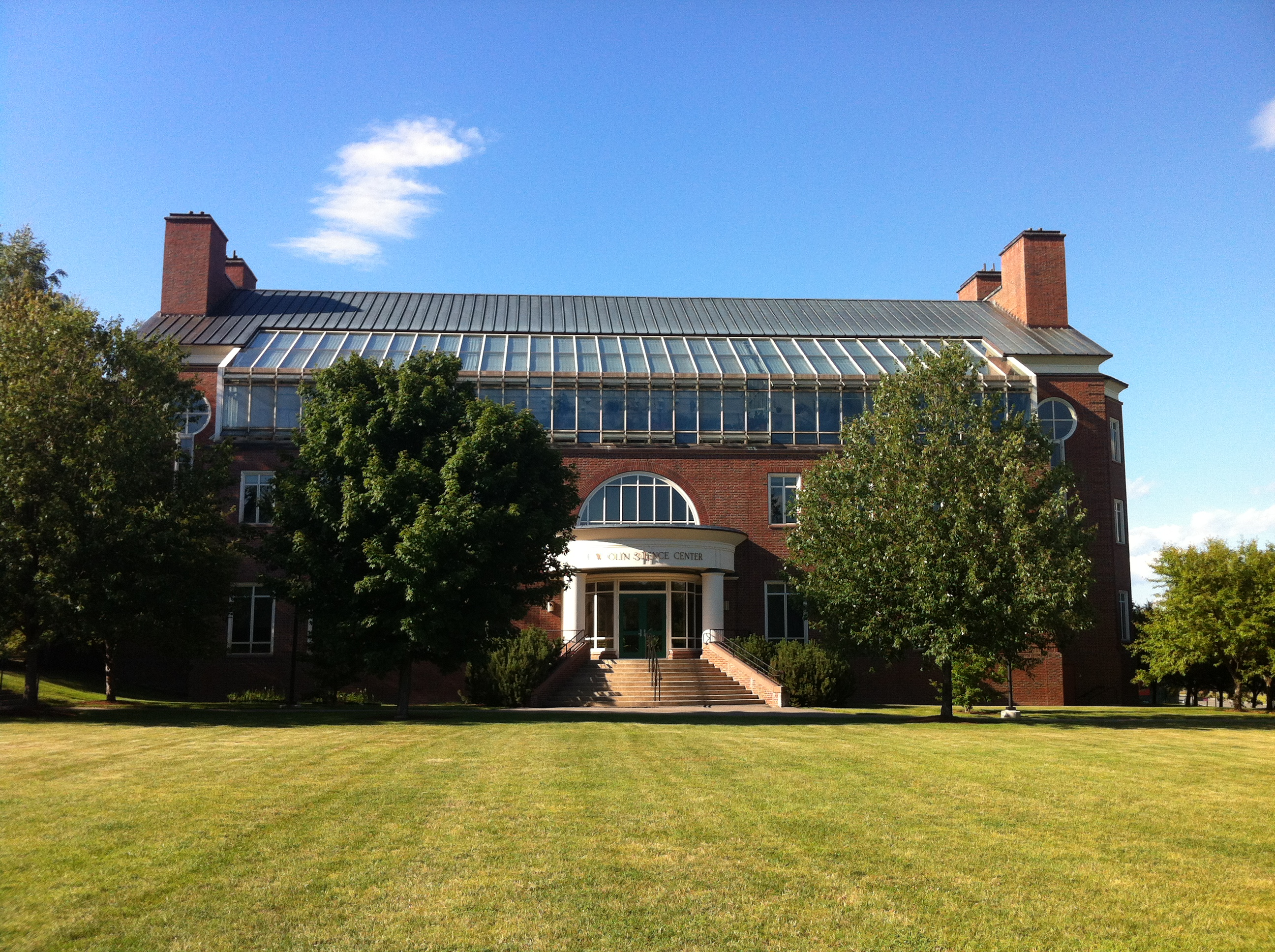 Colby College, Olin Science Center, Author: Nick Kline